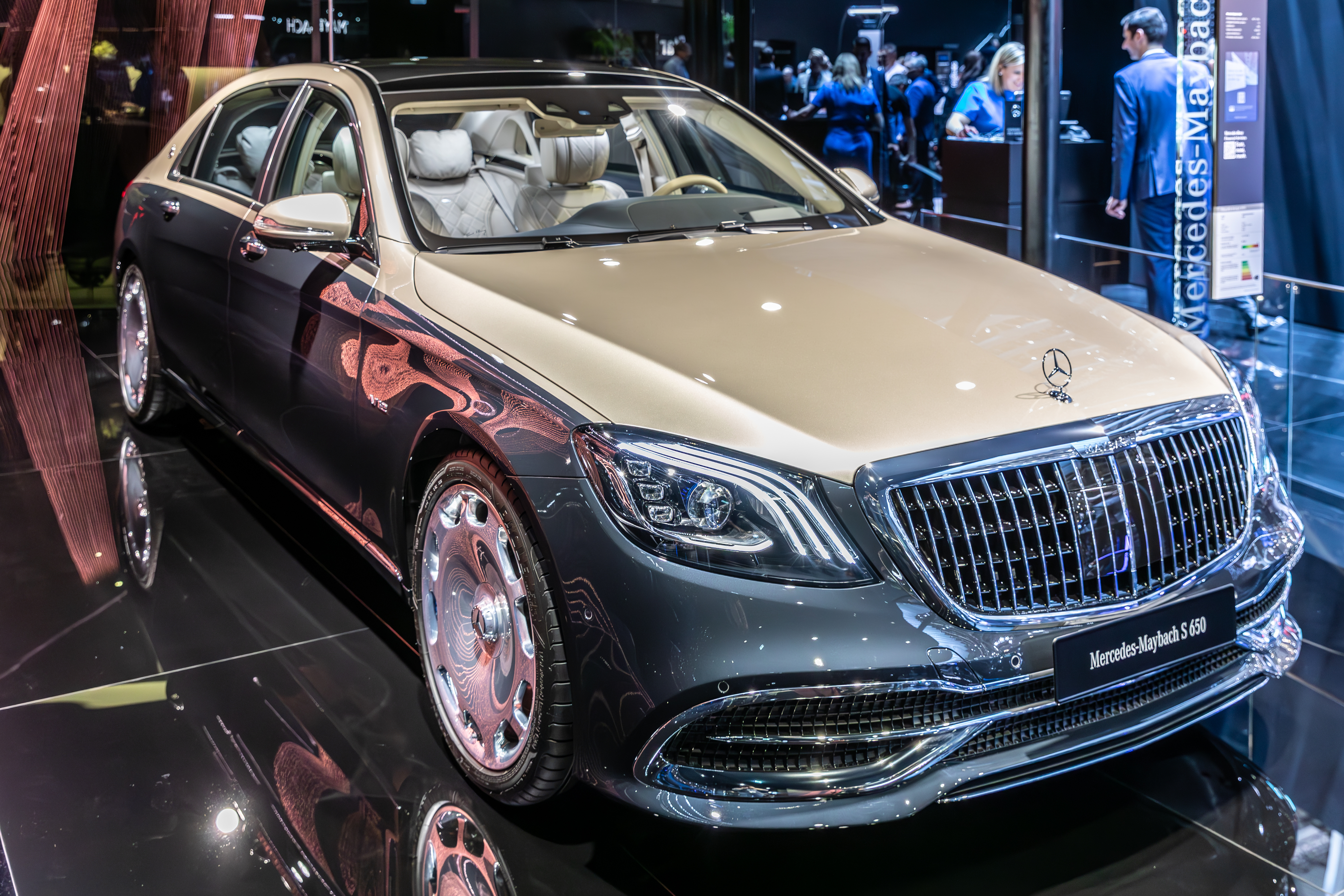 Mercedes-Maybach S 650 at Geneva International Motor Show 2019, Le Grand-Saconnex